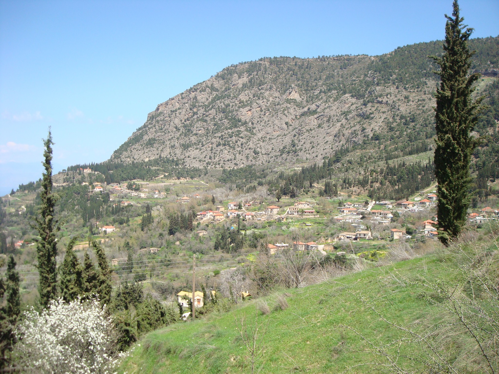 View of Monastiri village (Vergouvitsa) at Achaea prefecture, Greece